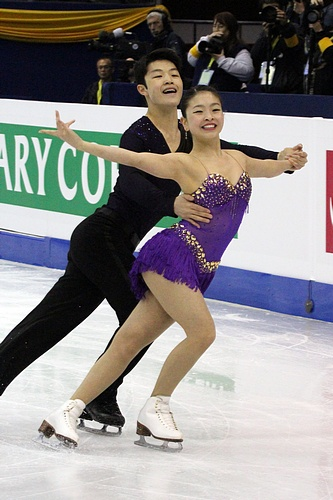 Maia Shibutani and Alex Shibutani at the World Championships 2012